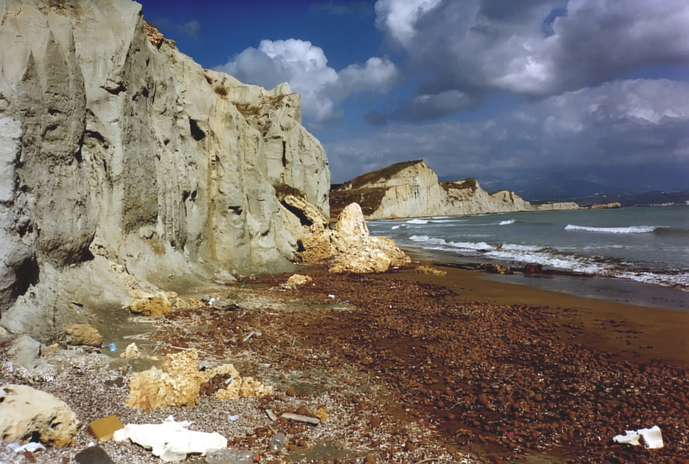 The beach of Xi